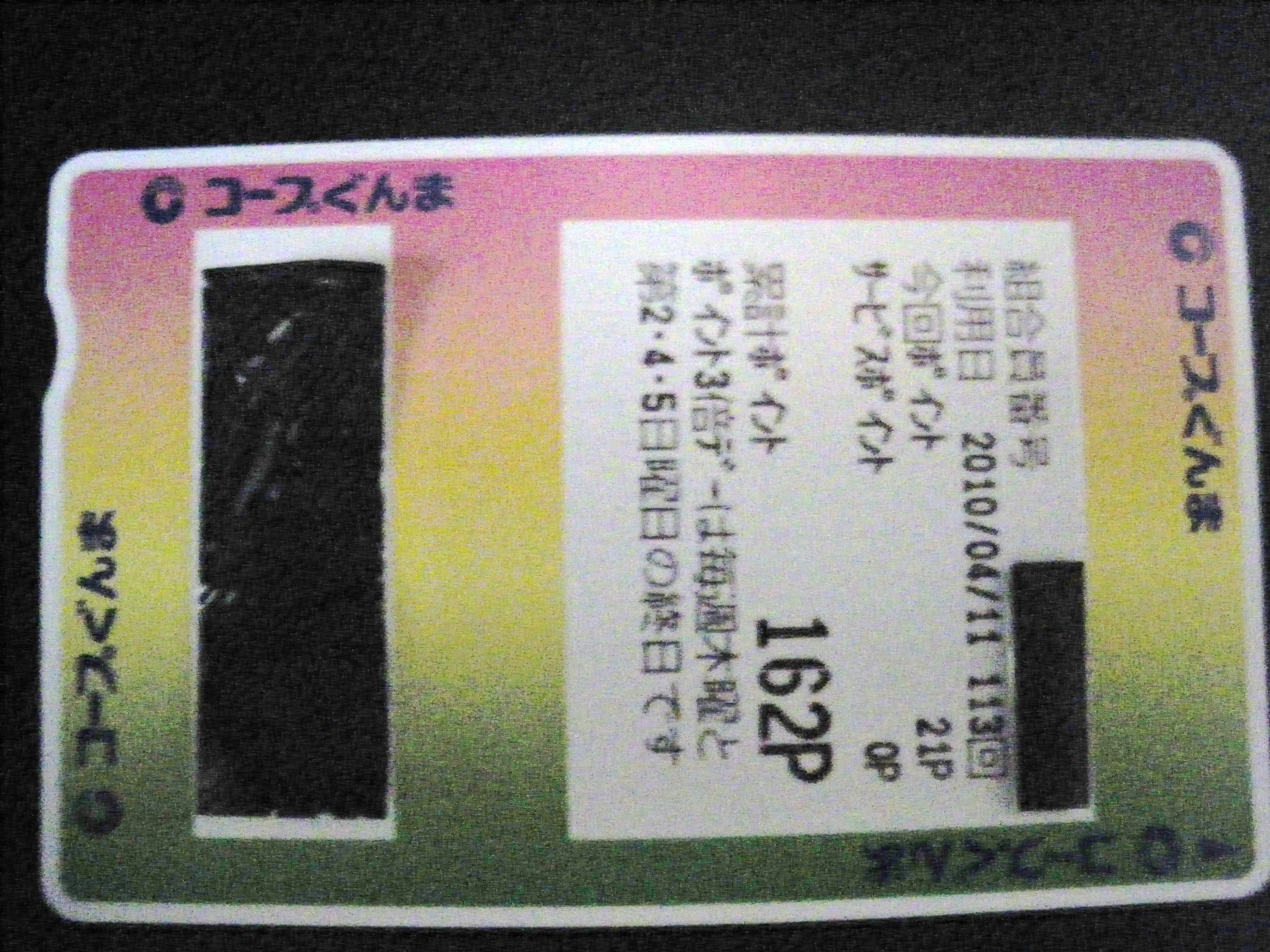 A member-card of Coop-Gunma